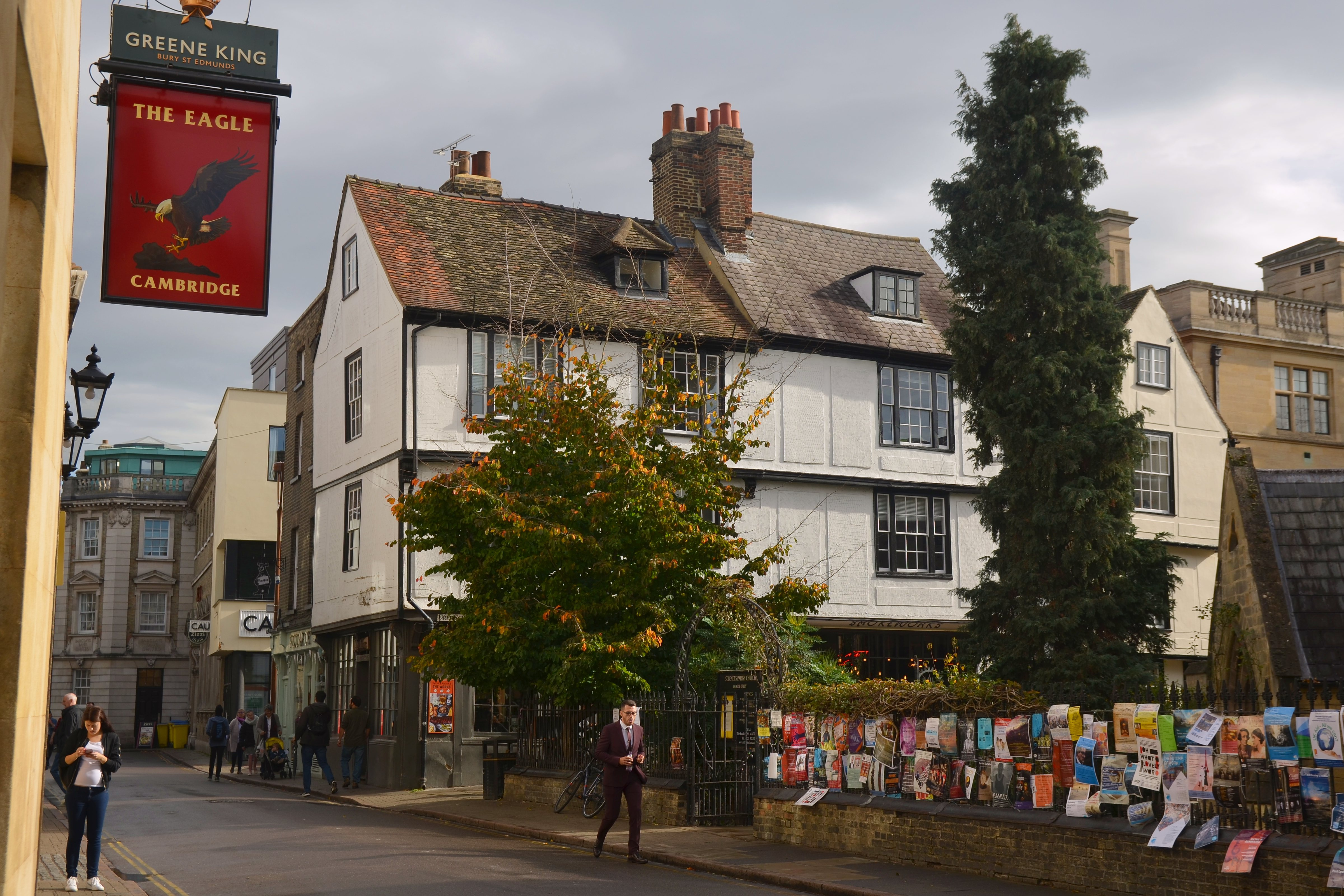 Friar House, Cambridge viewed from The Eagle pub in October 2018.